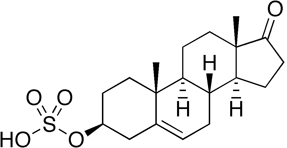 chemical structure of dehydroepiandrosterone sulfate (DHEAS)